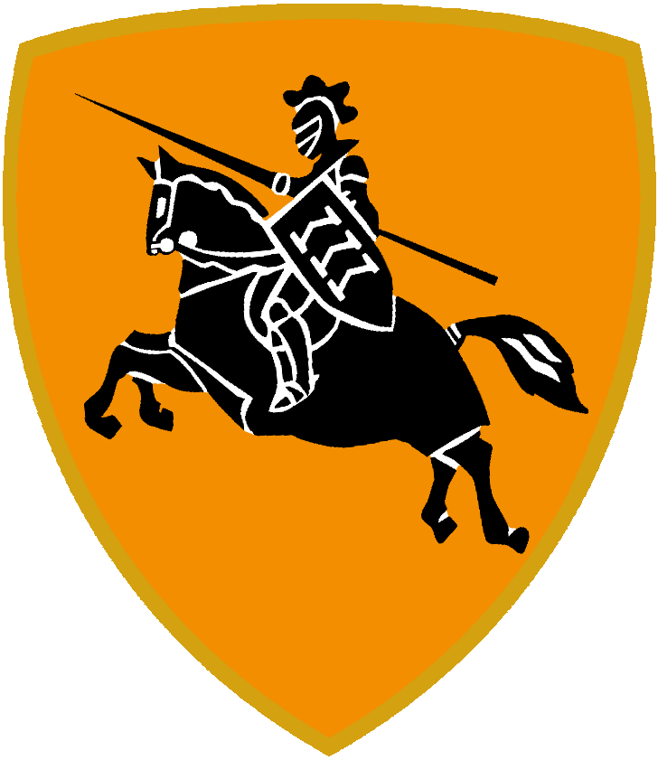 Coat of Arms of the Italian Army Cavalry Brigade Pozzuolo del Friuli after 1986